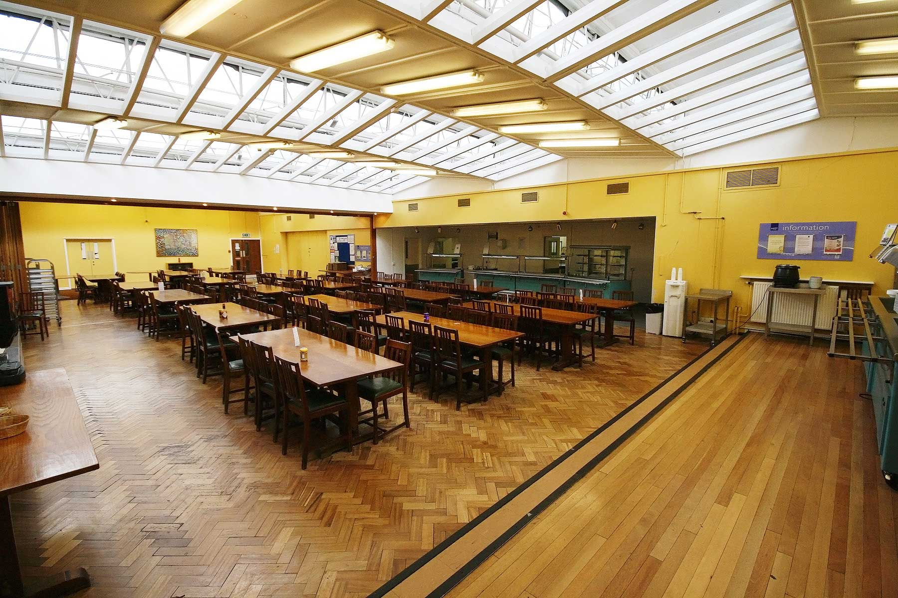 Photography by A. Clark.